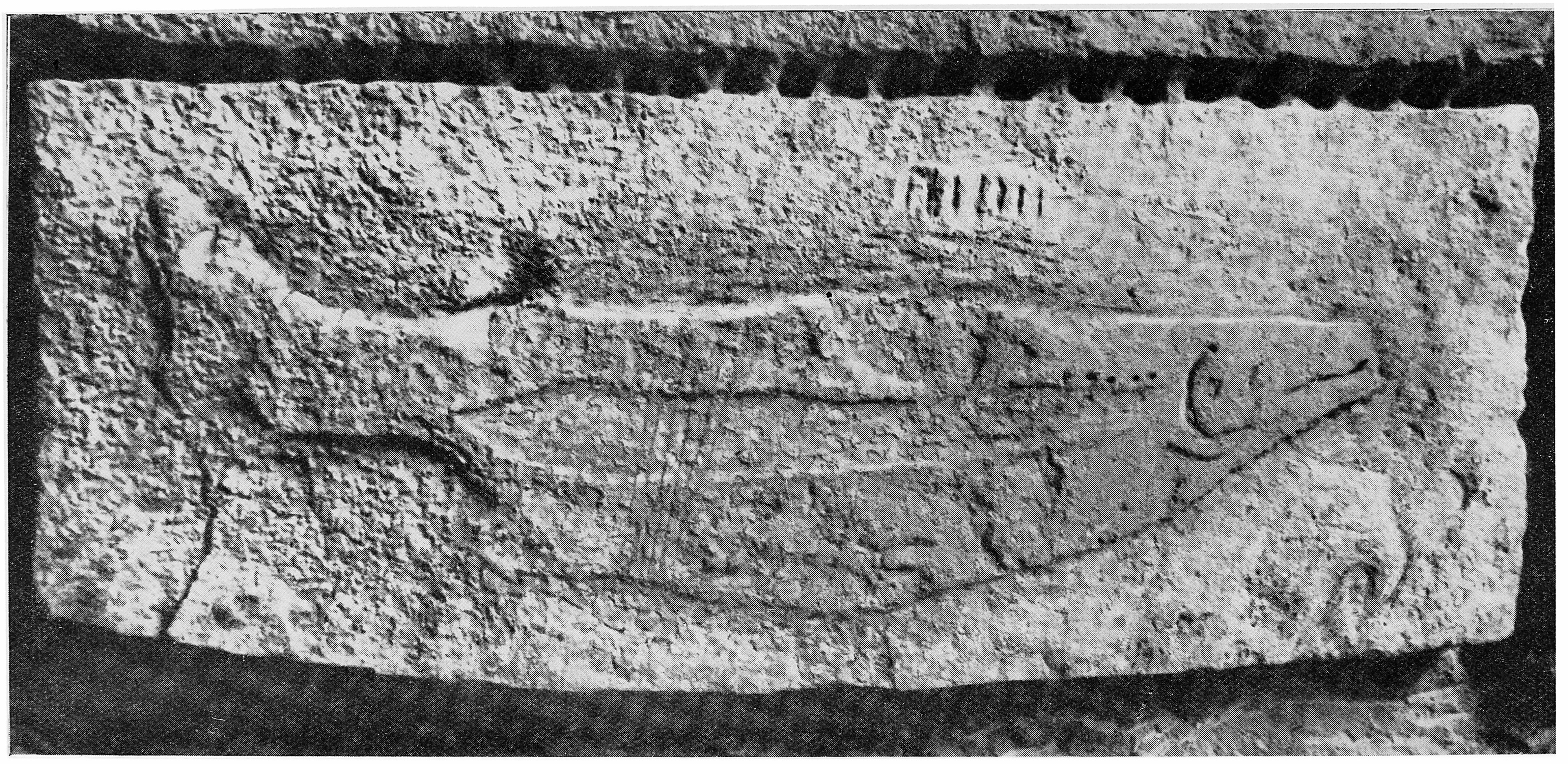 Sculpted fish on roof of cave, Abri du poison, Gorge d'Enfer, Tayac, Dordogne. Wellcome Images Keywords: prehistoric art; Archaeology